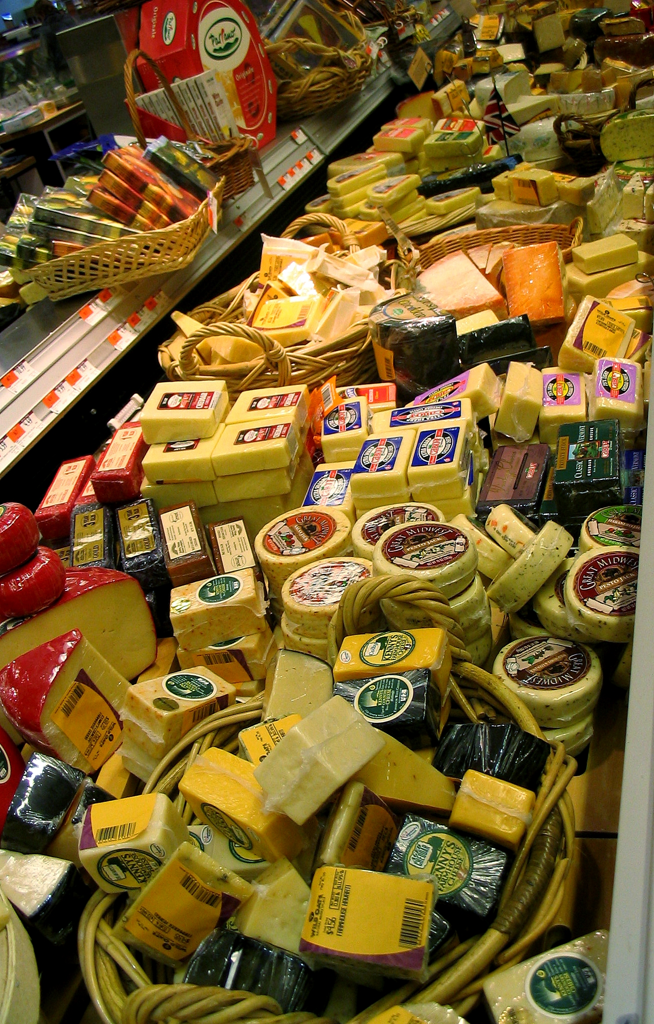 Many types of cheeses.